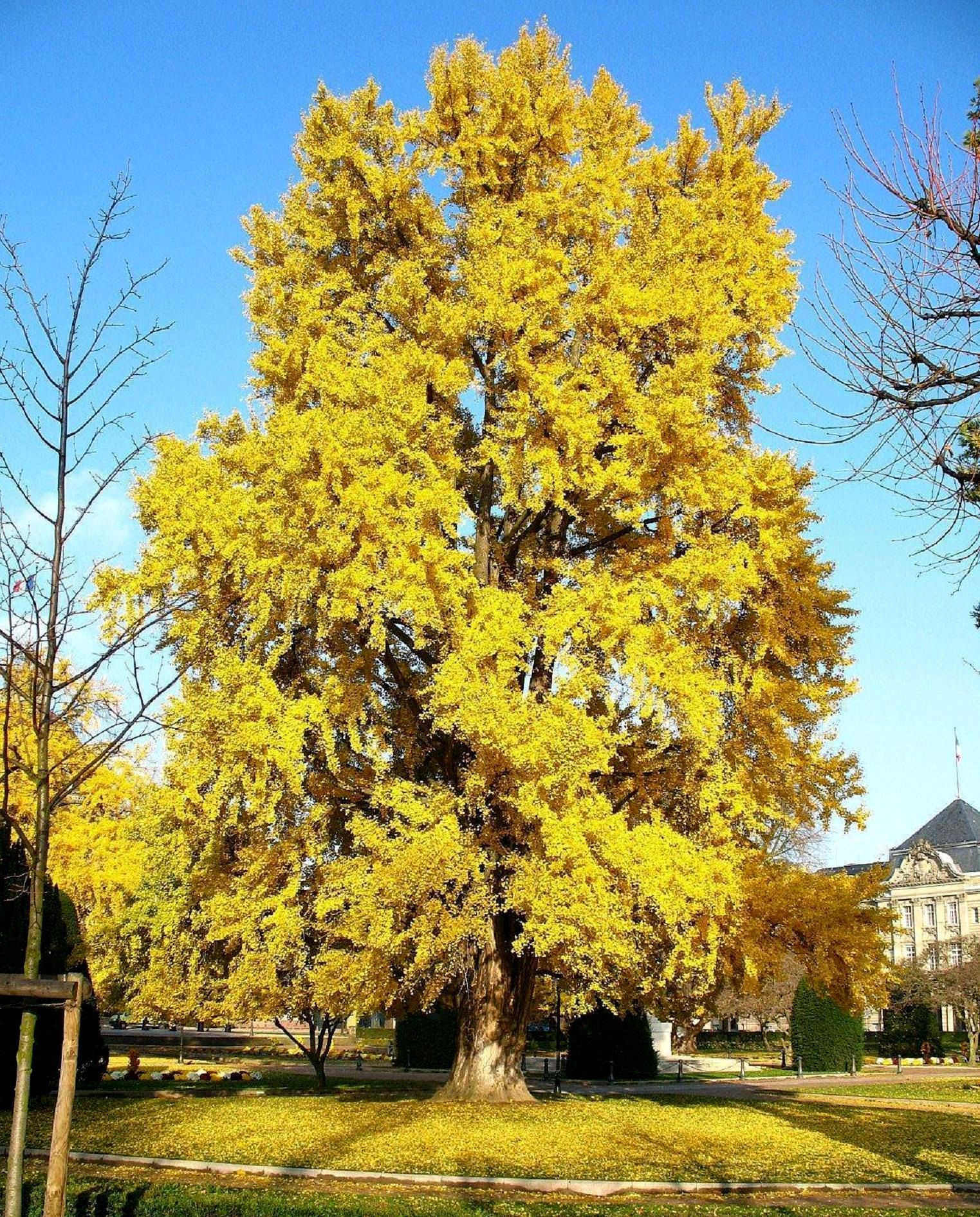 Ginkgotree